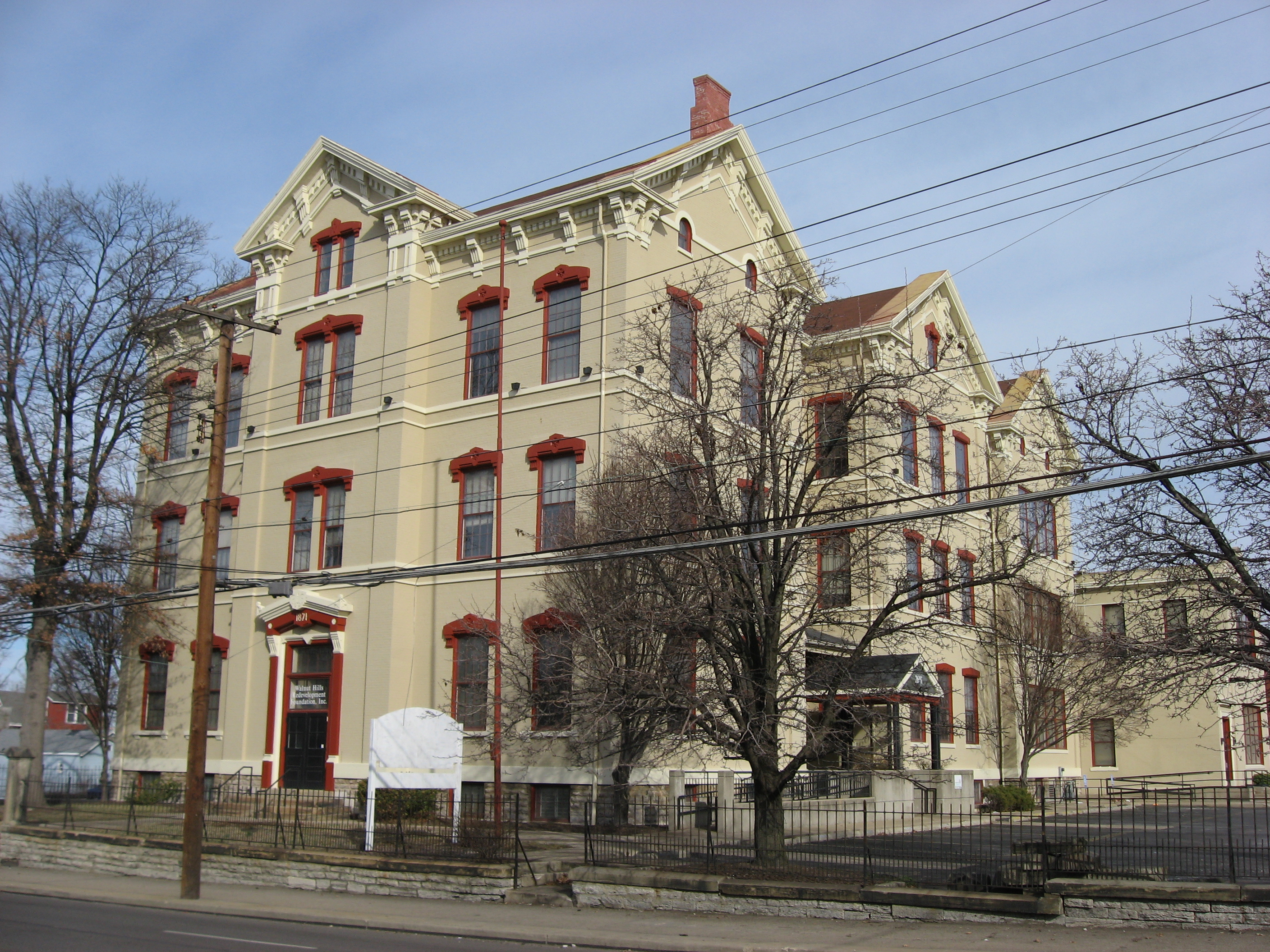 Front of the Cummins School, located at 824 William Howard Taft Road in the Walnut Hills neighborhood of Cincinnati, Ohio, United States. Built in 1871 according to a design by Samuel Hannaford, it is listed on the National Register of Historic Places.